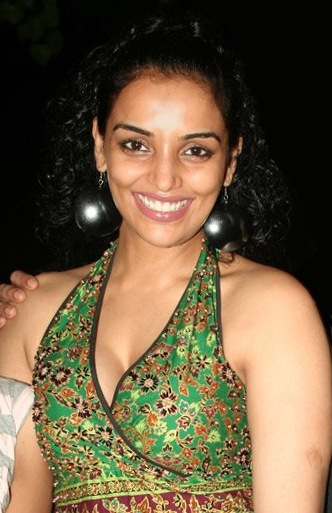 Shweta Menon Film actress, Model, TV presenter of India